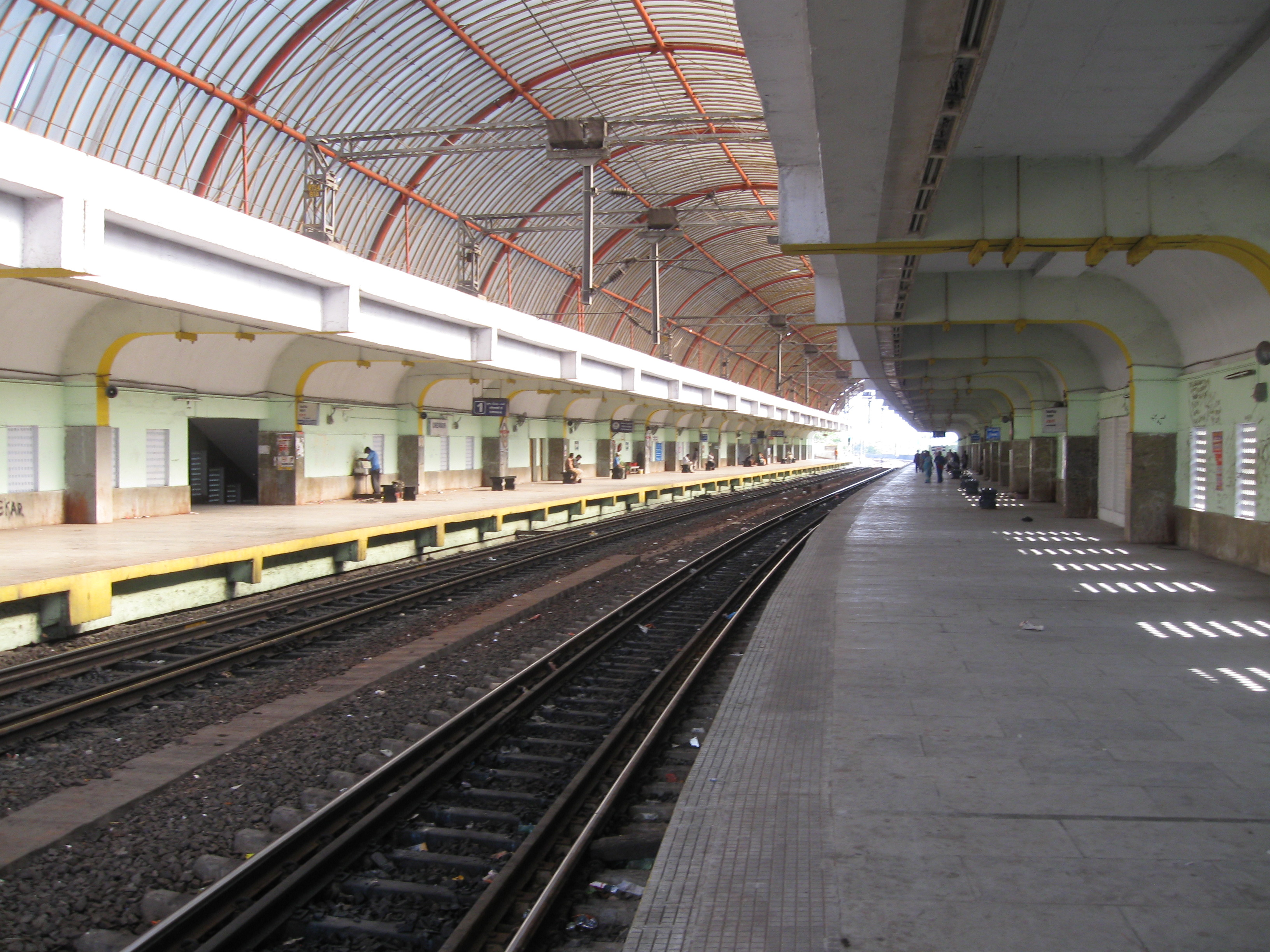 Chepauk Suburban Railway Station in Chennai.